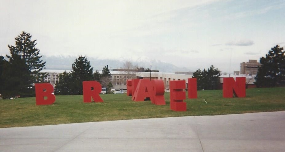 The letters display for the Novell BrainShare '95 technical conference, held on the campus of the University of Utah. The Wasatch Range is seen faintly in the background. (Date might be the 21st not the 20th, was not certain when first annotated at the time.)